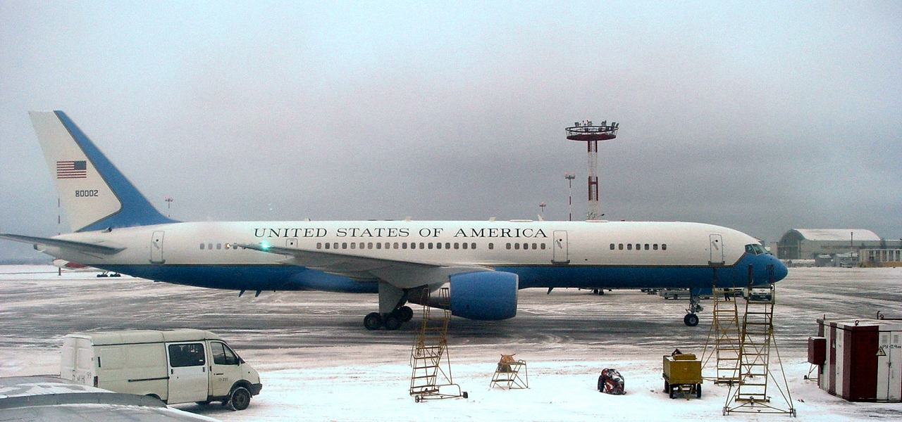 December 18 2003. US State secretary visit to Moscow